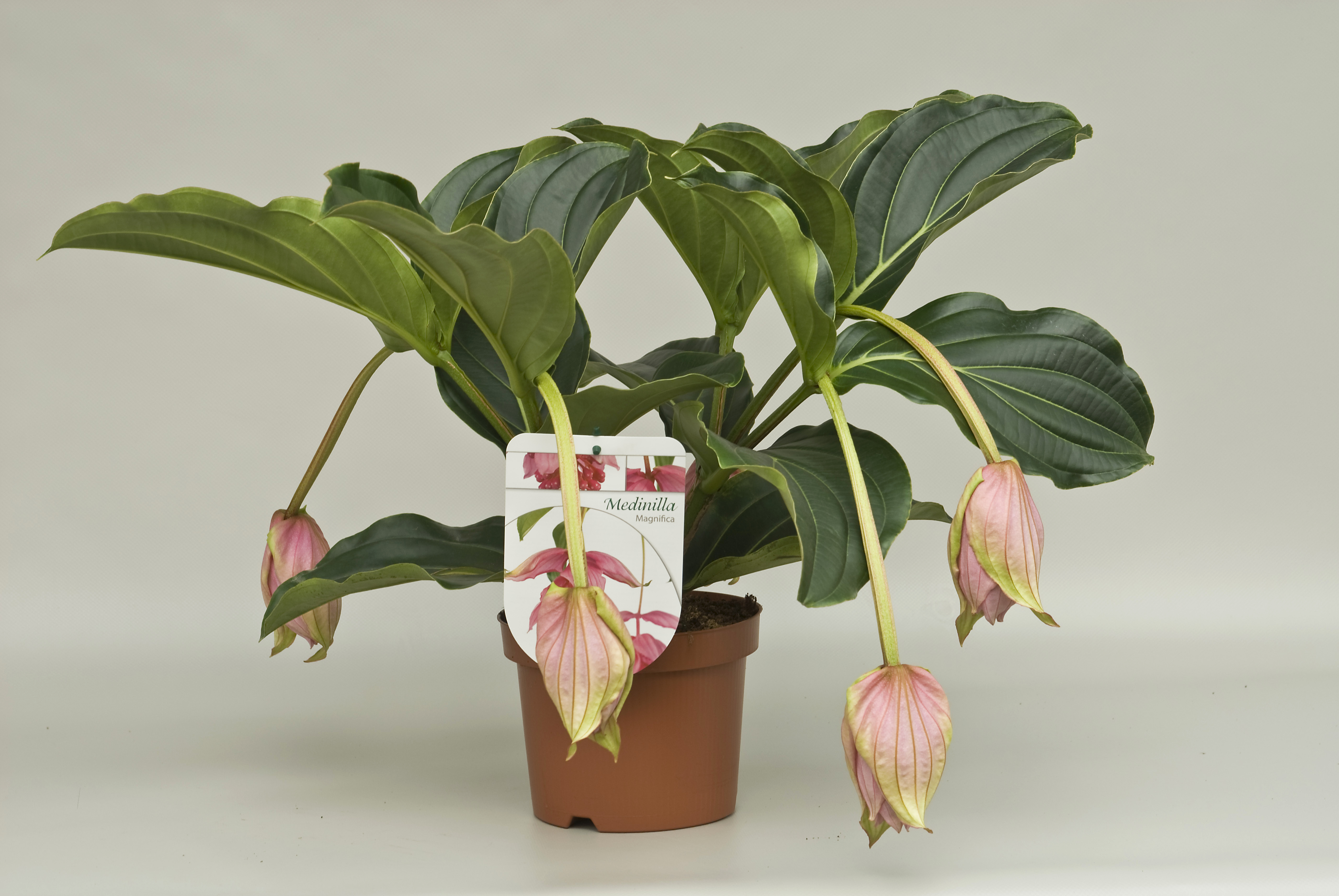 Medinilla Magnifica, how it will be sold